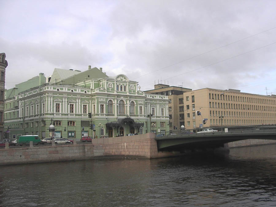 Tovstonogov Theater